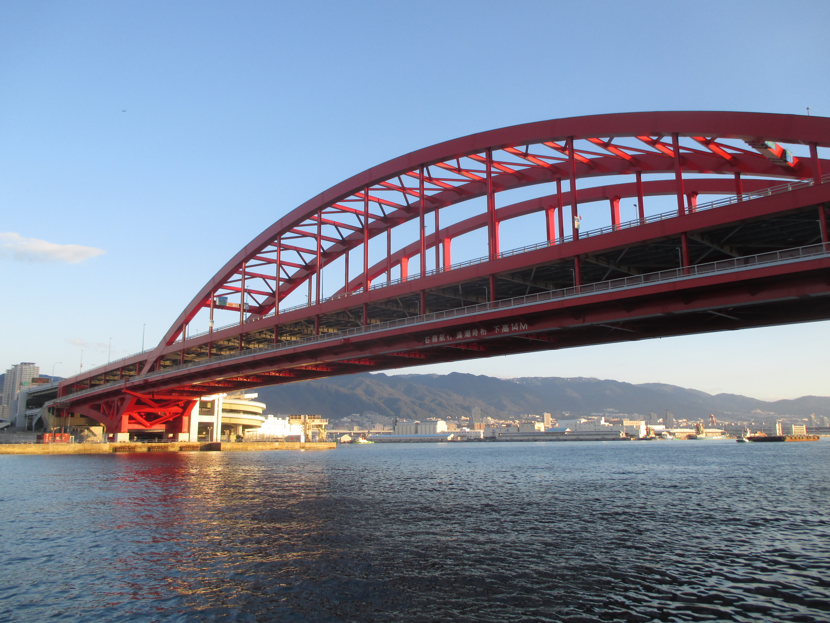 神戸大橋 Kobe-ohashi Bridge